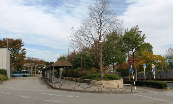 Sendai City, Dainohara Station(subway)